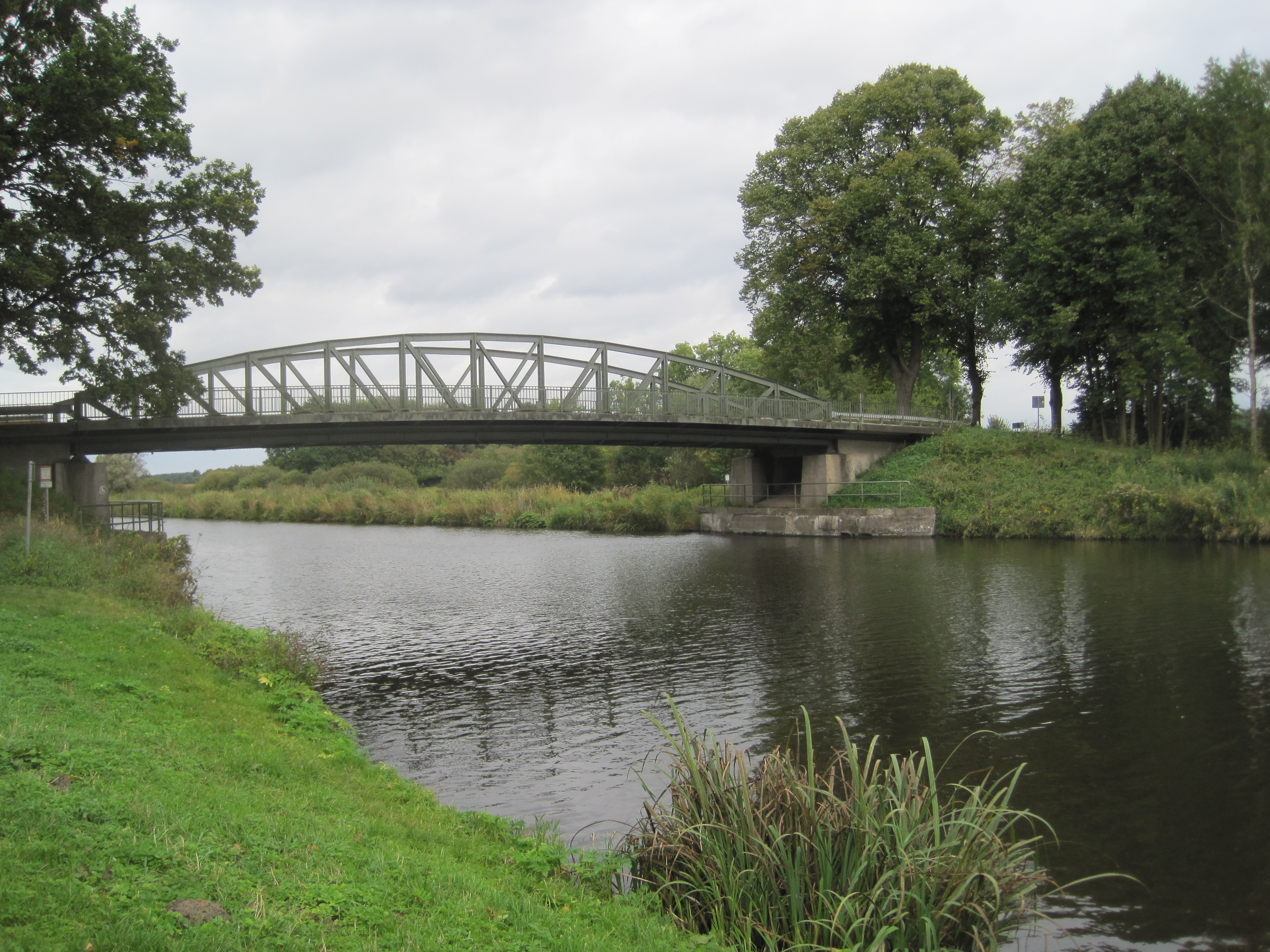 Bridge over Elbe-Lübeck-Canal in Kühsen.